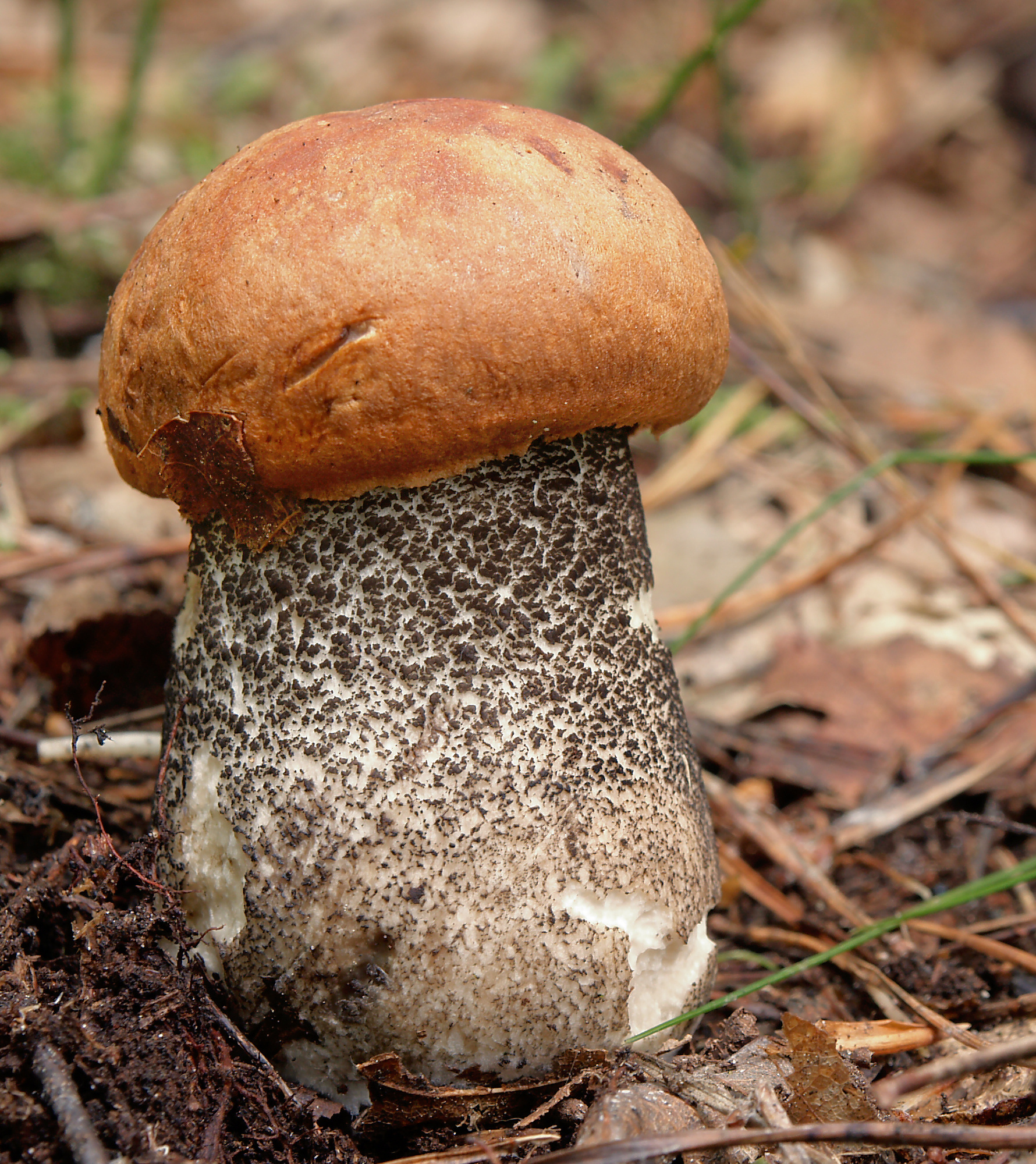 Orange Birch Bolete (Leccinum versipelle)